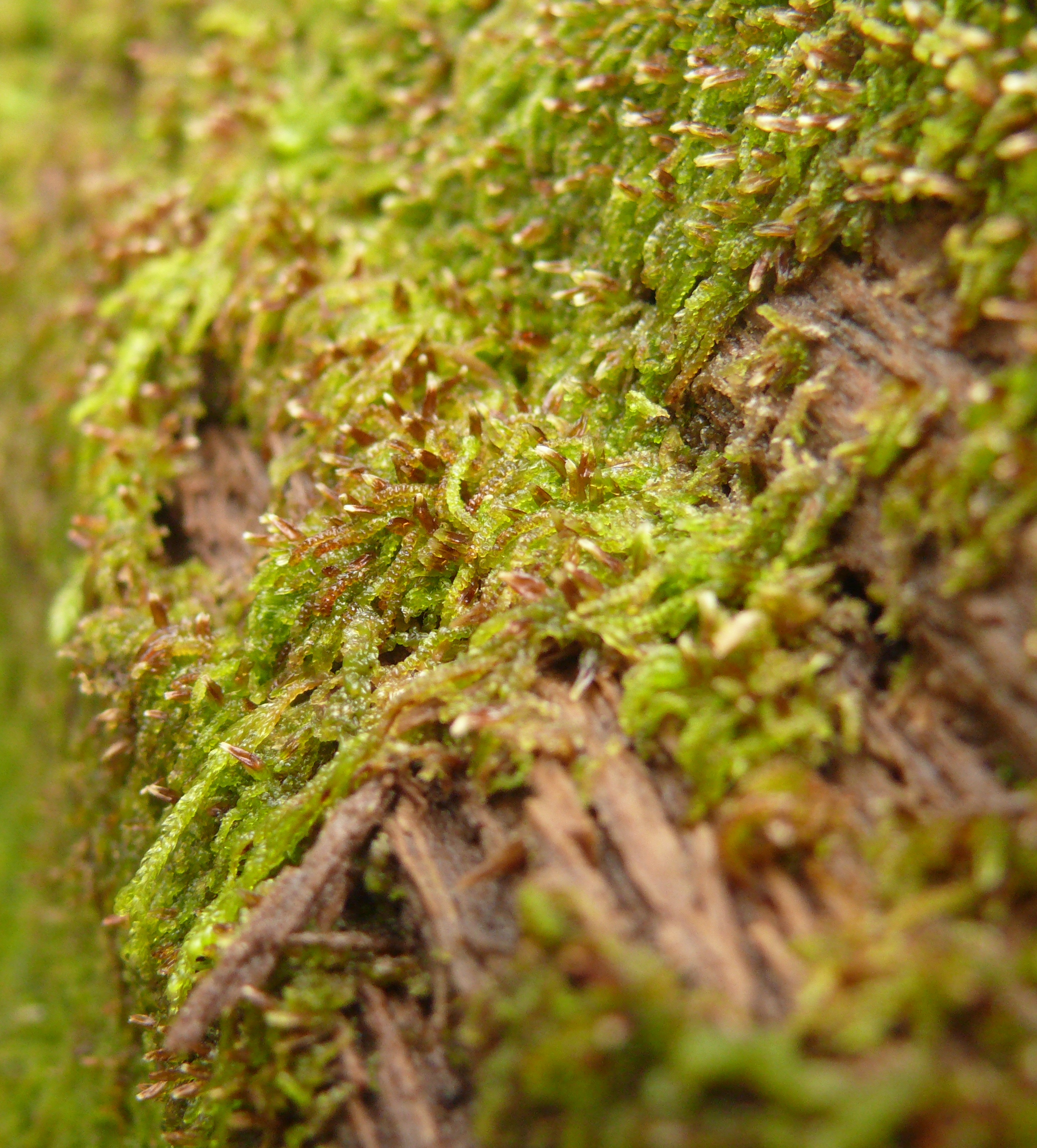 Nowellia curvifolia